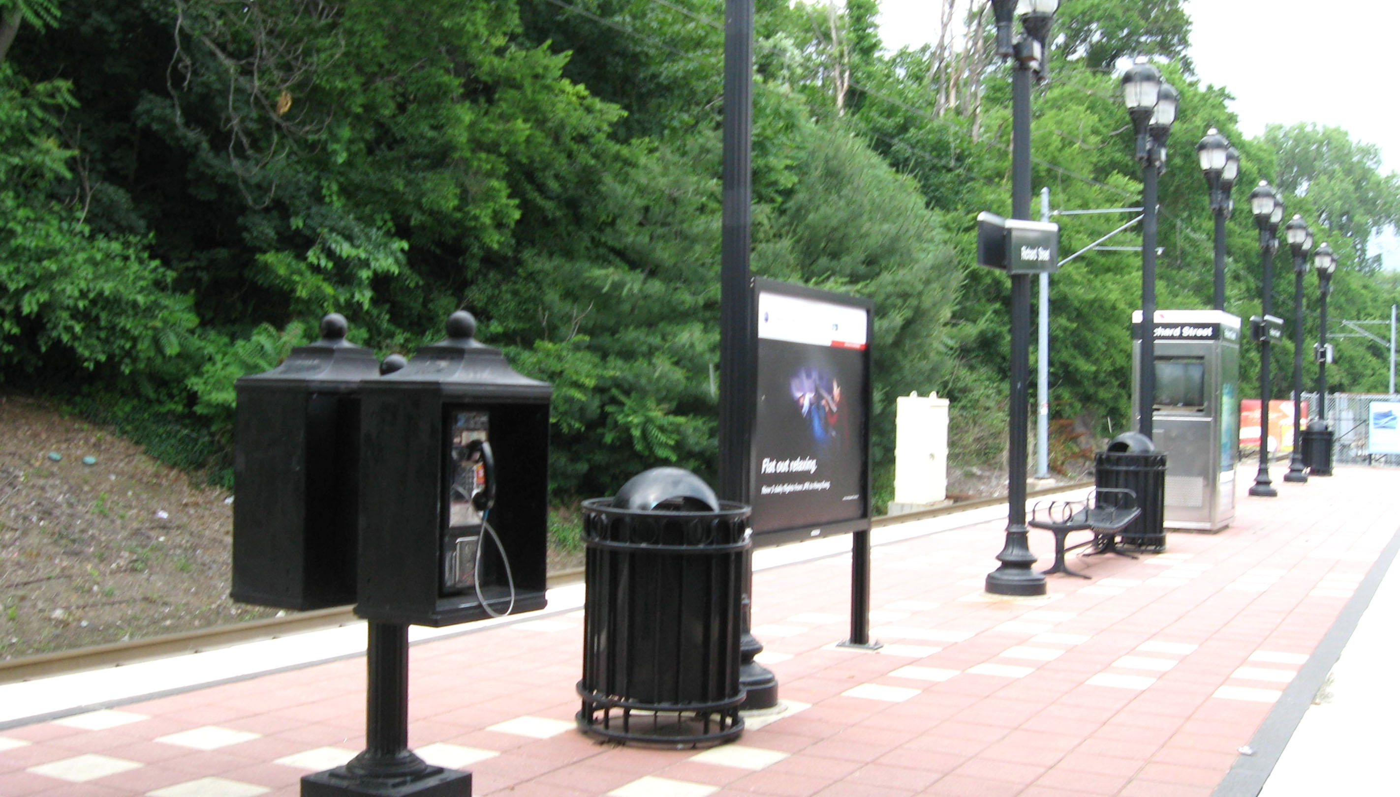 Looking north along platform of Richard Street (HBLR station) on a cloudy June 2008 afternoon.